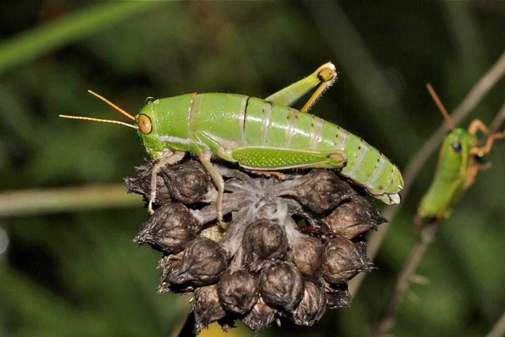 South Africa, Vernon Crookes Nature Reserve